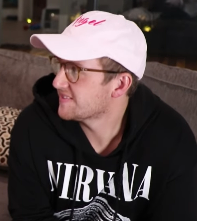 A portrait of Corey La Barrie (1995 - 2020)